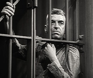 Alan Roscoe in The Last Mile (1932) - cropped screenshot